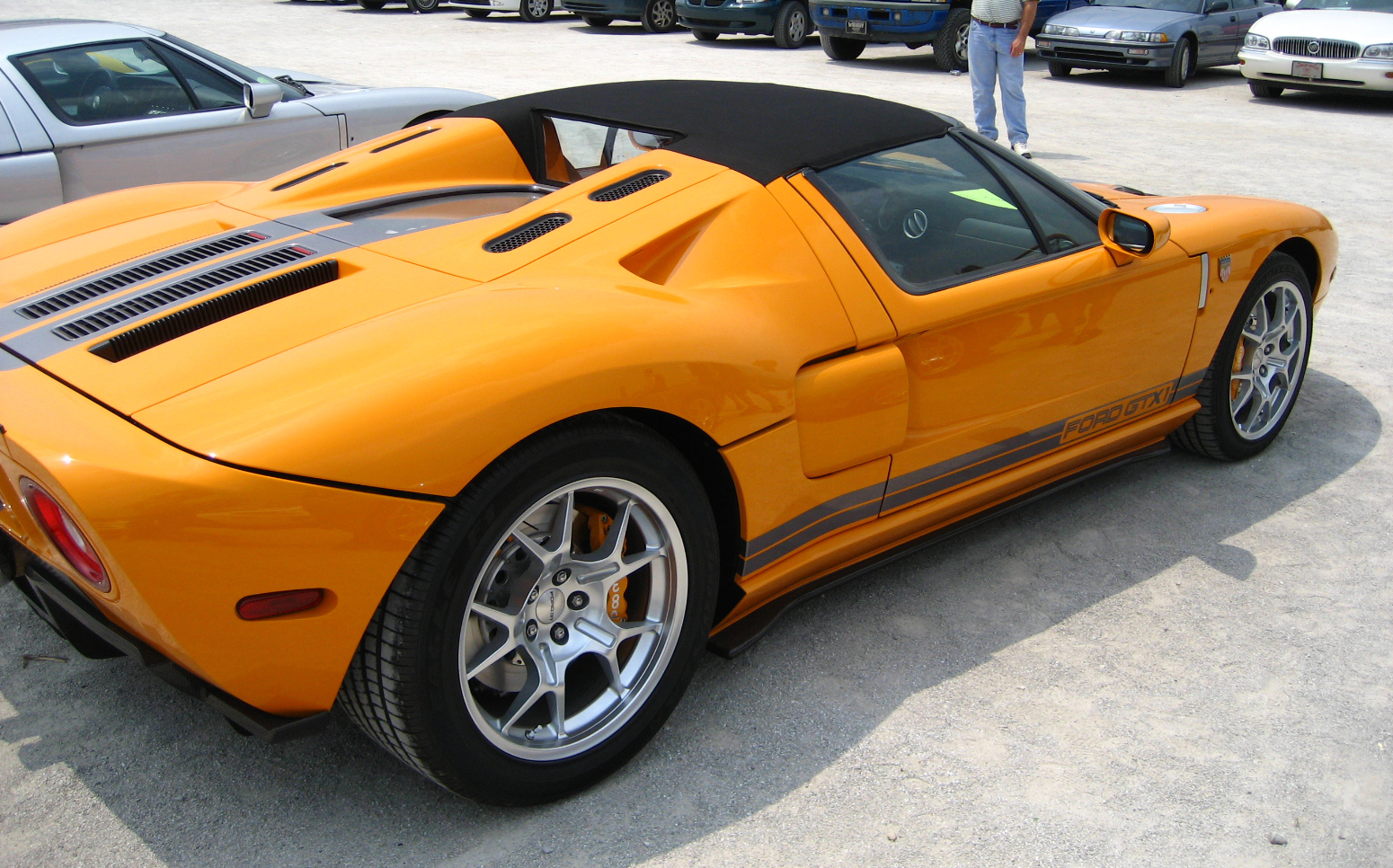 A Ford and Genaddi Design Group's GTX1 at the 2007 Indianapolis 500 Carb Day.